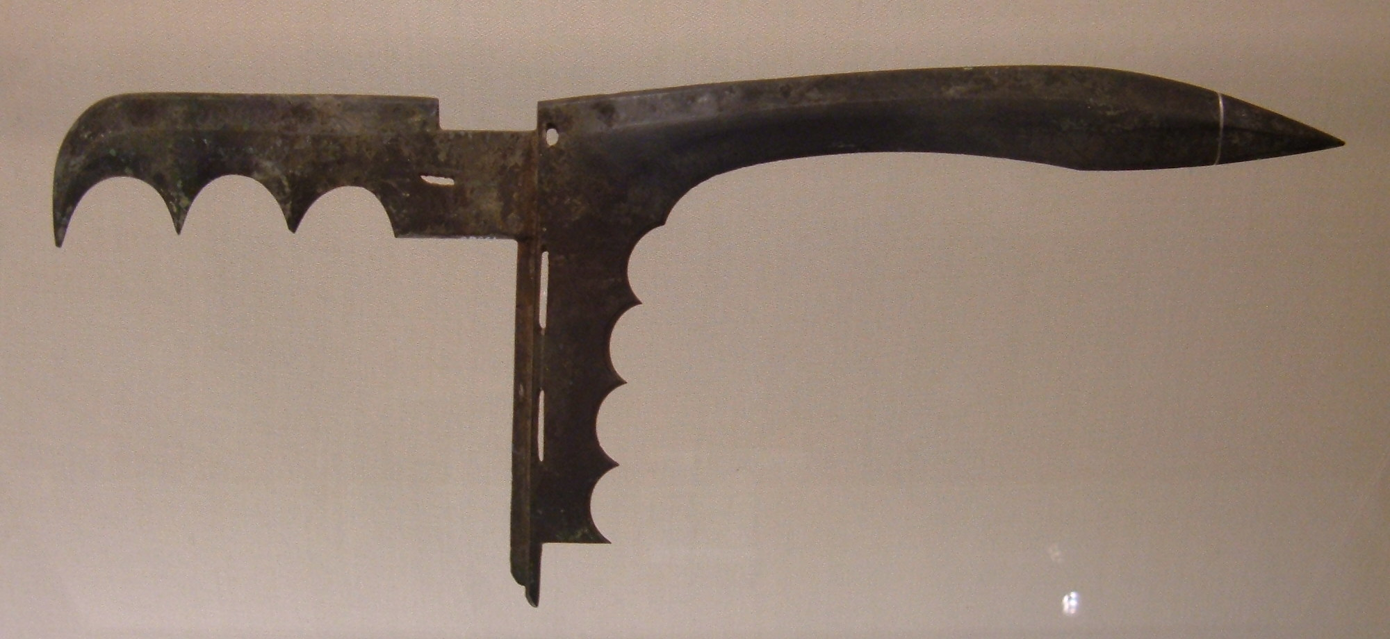 A Late Warring States Period dagger-axe on display at the Shanghai Museum in Shanghai, China.